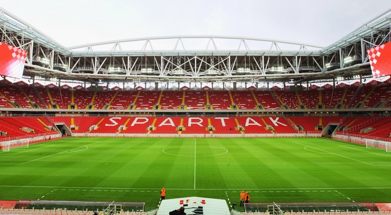 Otkrytie Arena